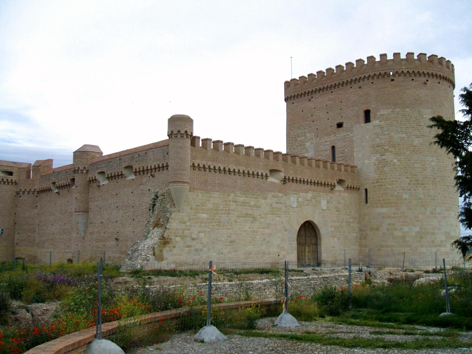 Castillo de Arévalo (Ávila, Castilla y León, España)